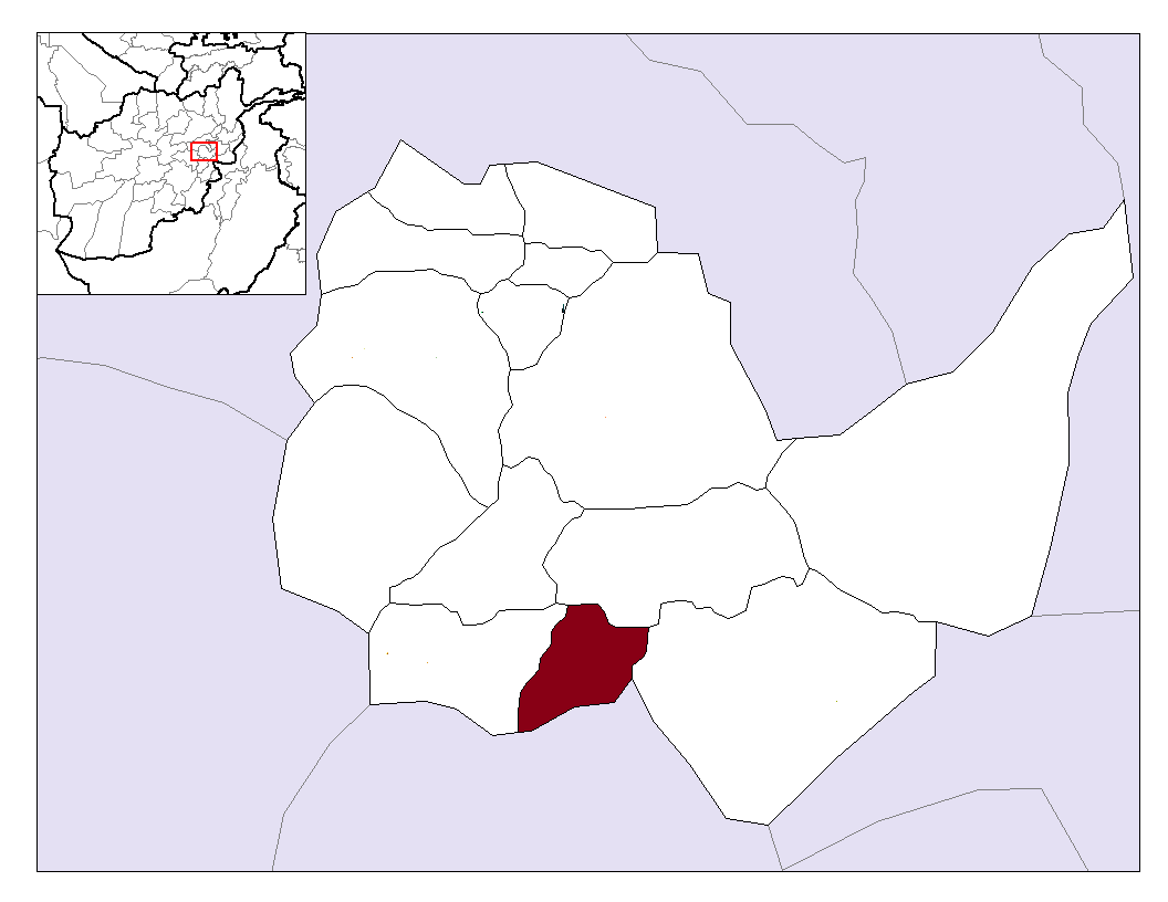 District locator in Kabul Province